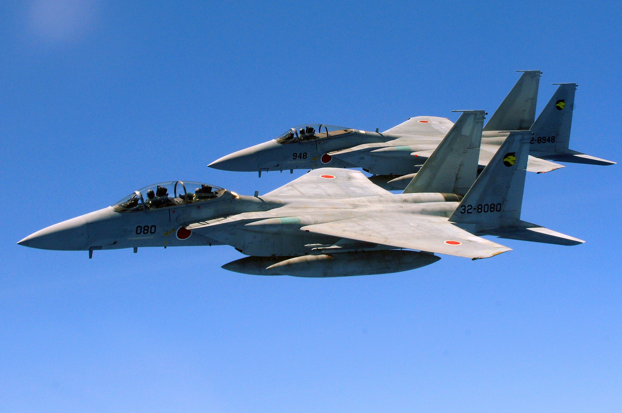 Two Japan Air Self Defense Force F-15's fly alongside a U.S. Air Force KC-135 from the 909th Air Refueling Squadron, Kadena Air Base, during air refueling training July 30.